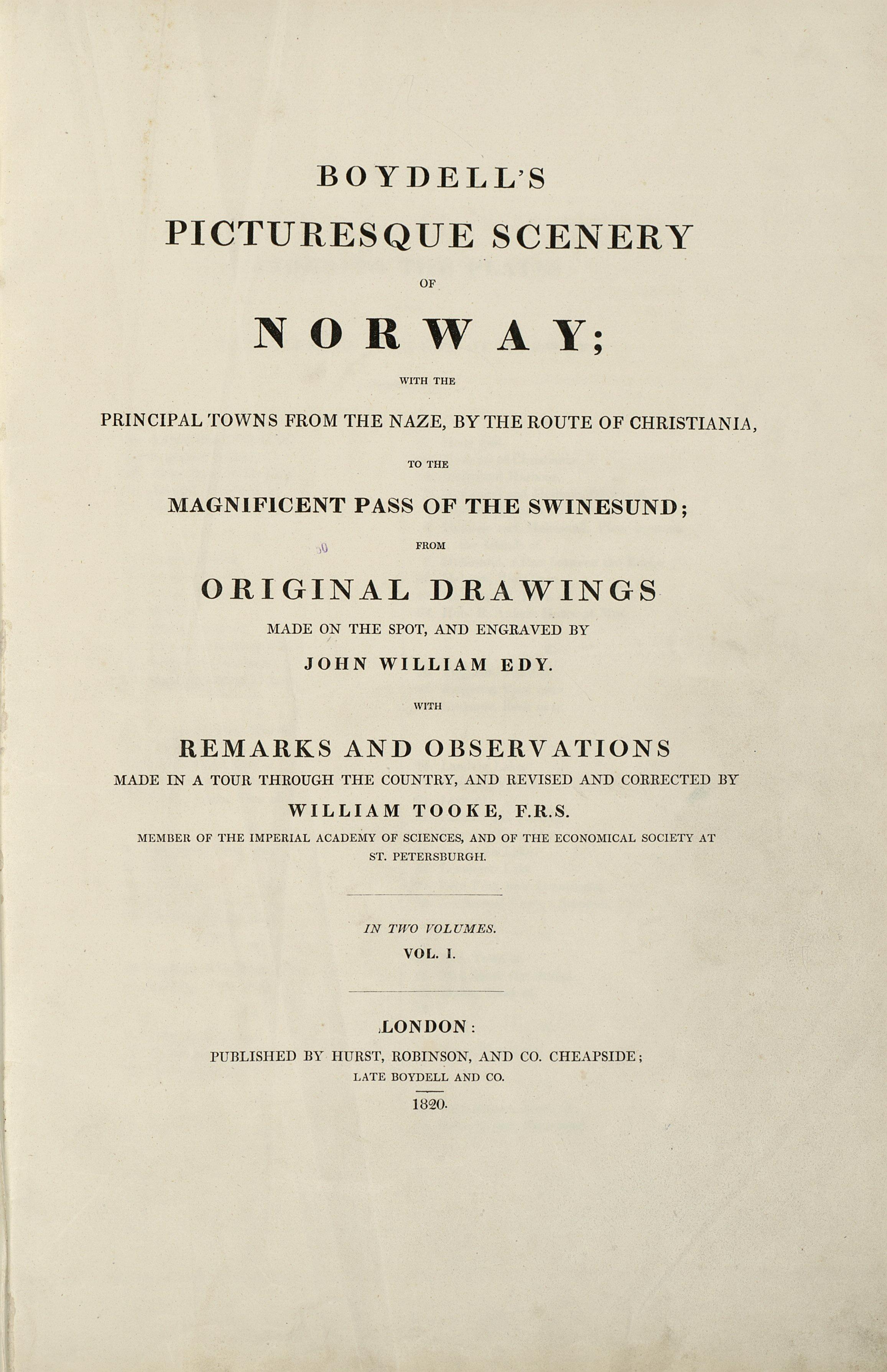 Title page for Boydell's picturesque scenery of Norway